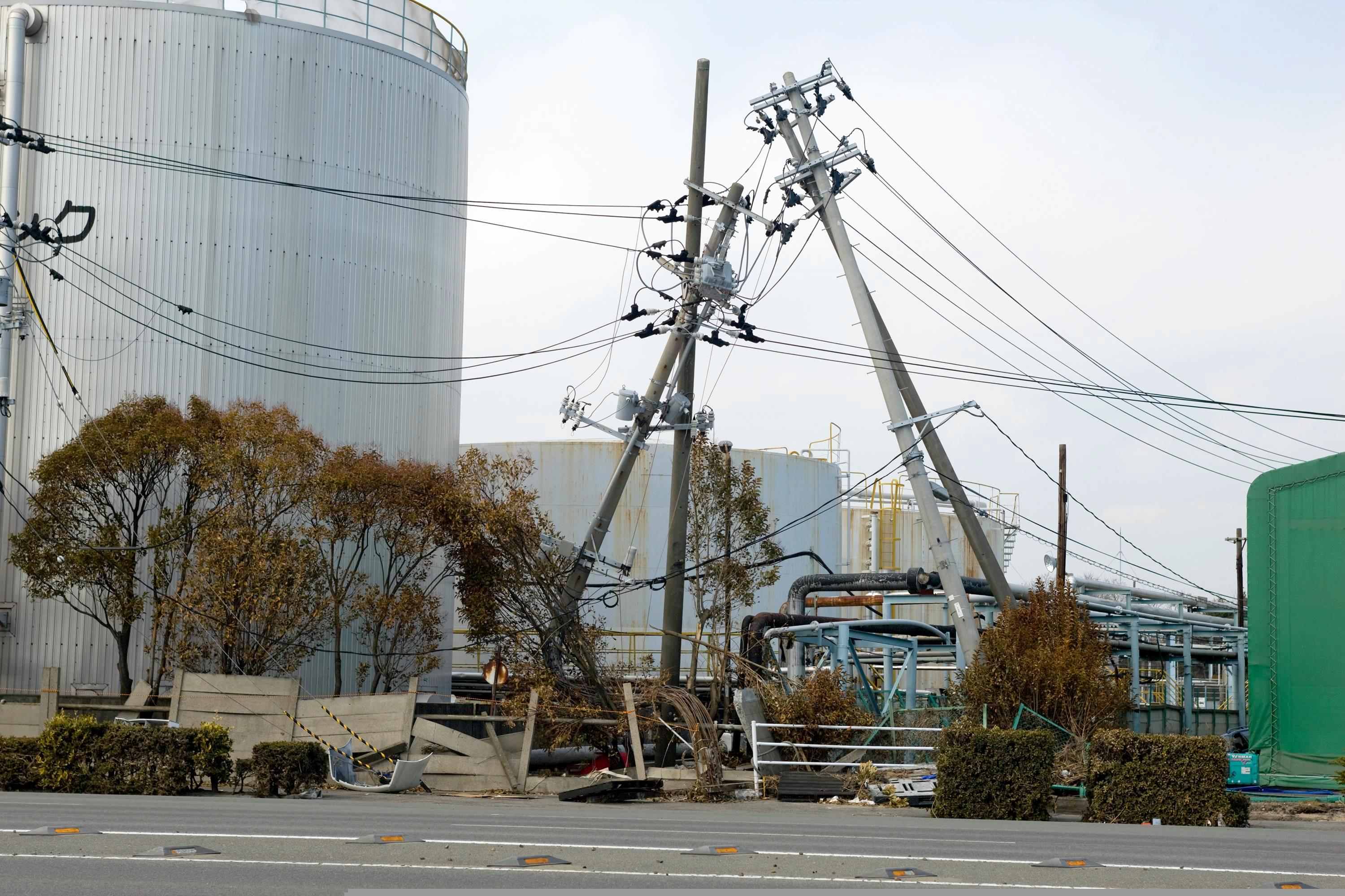 The devastated port city of Onahama (小名浜) in Fukushima prefecture, Japan, can be seen March 29, 2011, in the aftermath of the March 11 earthquake and tsunami. U.S. Forces Japan's response was part of a broader U.S. government effort to support Japan's request for humanitarian assistance. This effort included coordination by the U.S. Department of State and U.S. Agency for International Development, in constant consultation with Japanese authorities and U.S. Pacific Command. (U.S. Air Force photo by Yasuo Osakabe/Released) (original text)